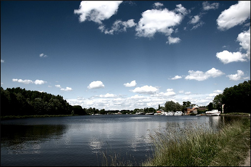 The Bassin Rond - a small lake of sorts where the Canal de l'Escaut end the Canal de la Sensée meet next to Estrun in Northern France